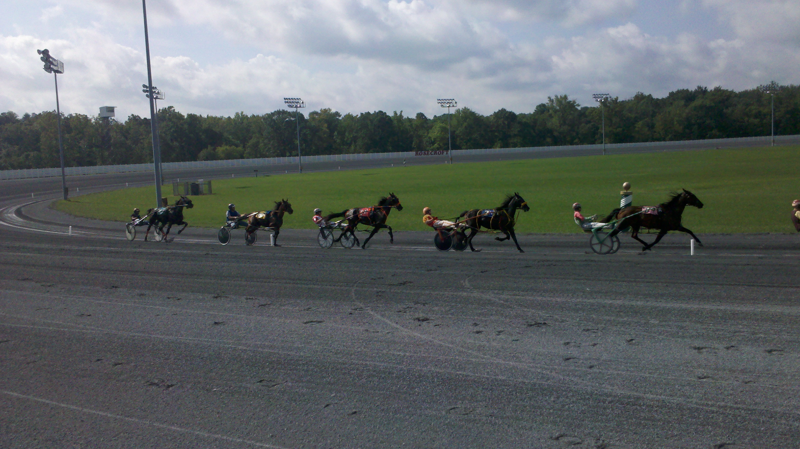 A picture of horses racing at Rosecroft Raceway, a horse track in Prince George's County, Maryland, USA